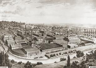 Sandersche Maschinefabrik, Augsburg, 1890